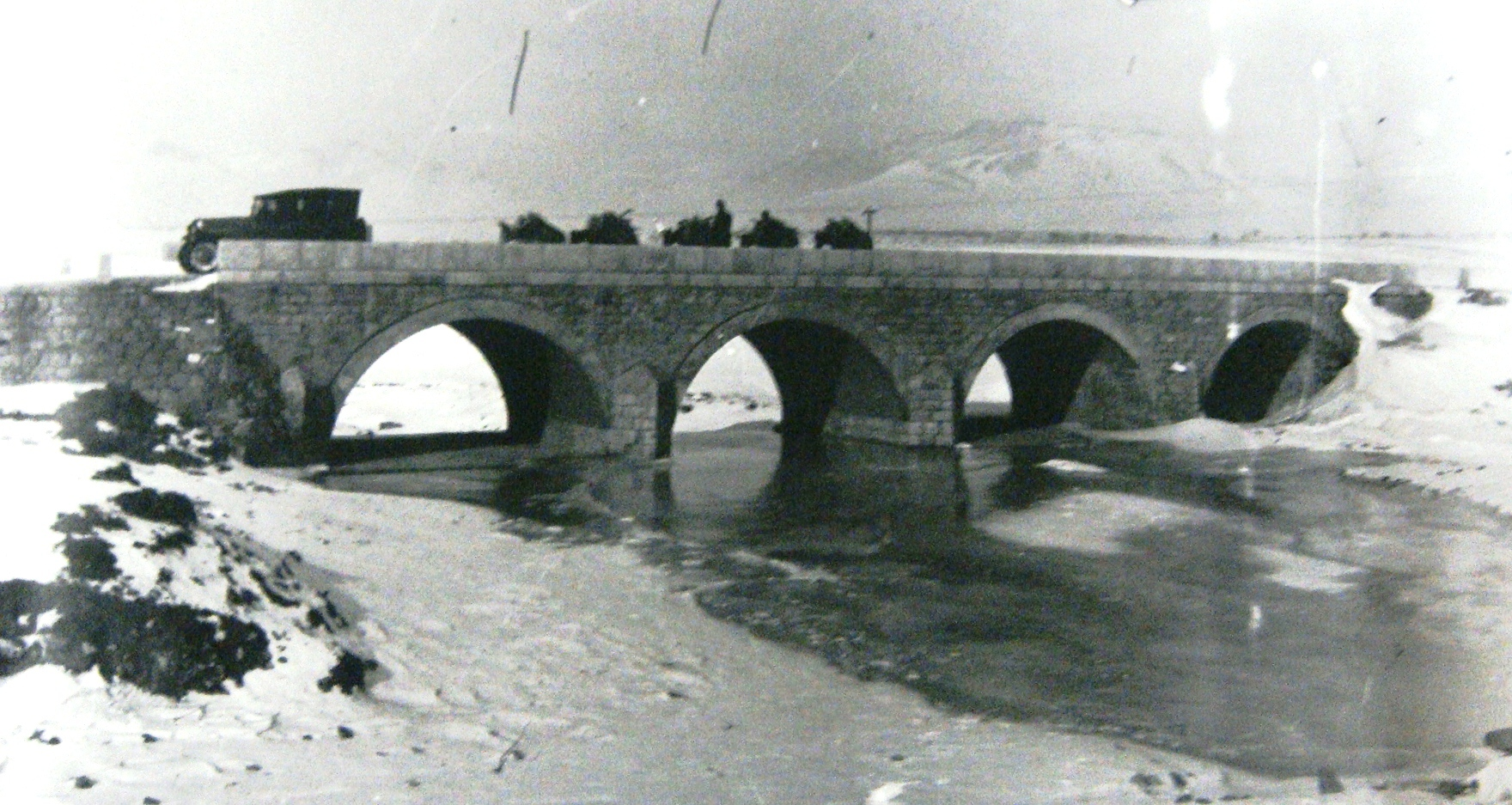 Bridge on the River Dragor near the area Dovledzik in Bitola, 1916 This media file is produced by Wikipedian in Residence in Category:Wikipedian in Residence at DARM in 2016.